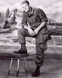 US Army file photo of Kenneth E. Stumpf